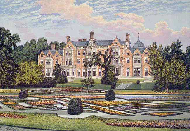 Sandringham House in Norfolk, England, circa 1880.